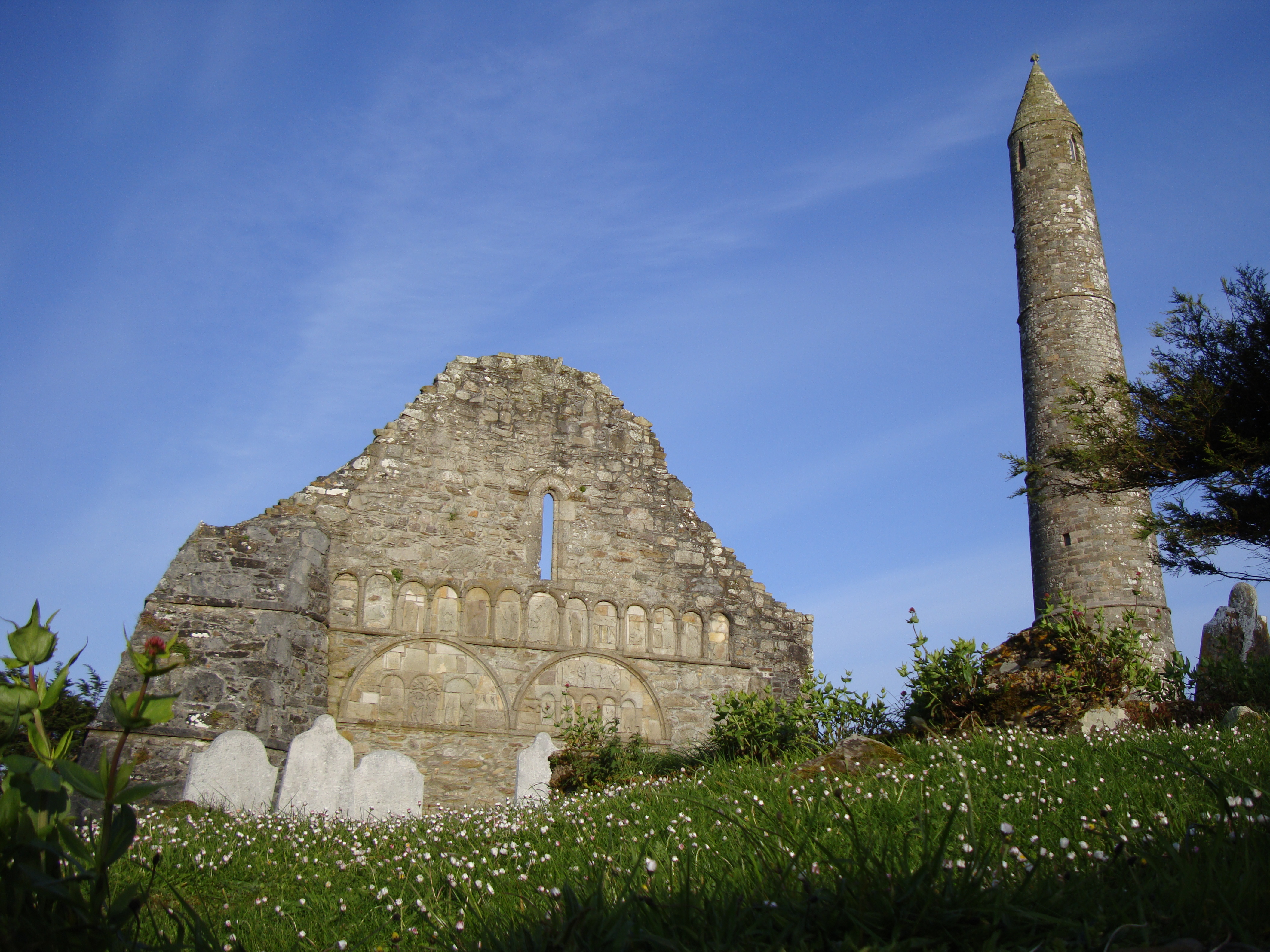 Photograph of the remains of Ardmore Cathedral and round tower, Co. Waterford, Republic of Ireland